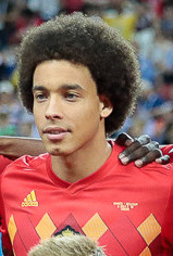 The Belgium national team line-up before the match against Brazil, 6 July 2018.